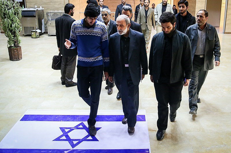 Hossein Shariatmadari warns against the penetration of the enemy after the Joint Comprehensive Plan of Action (JCPOA) for students.